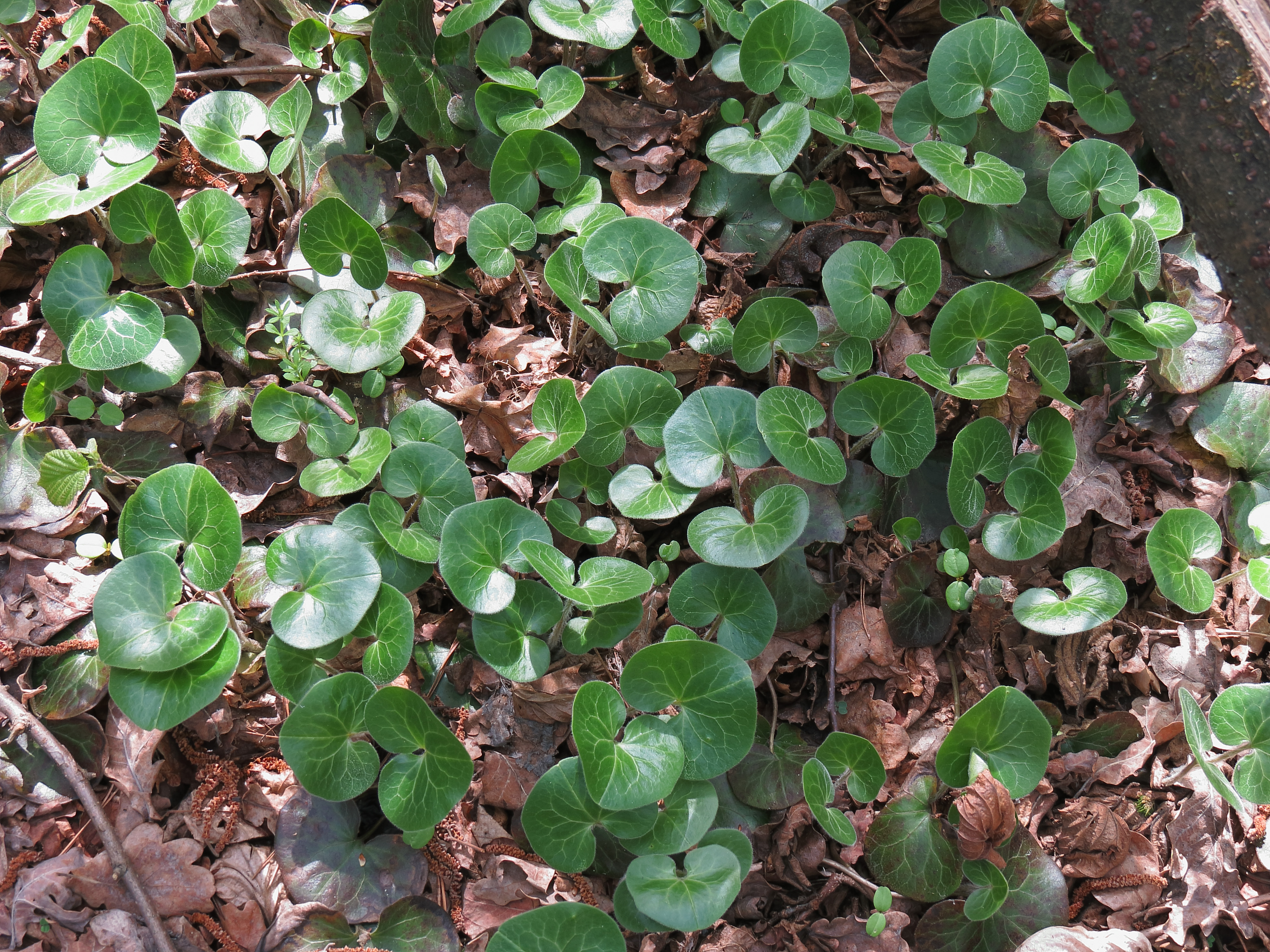 Asarum europaeum in the forest near Krasnyy Khutir, Kiev, Ukraine